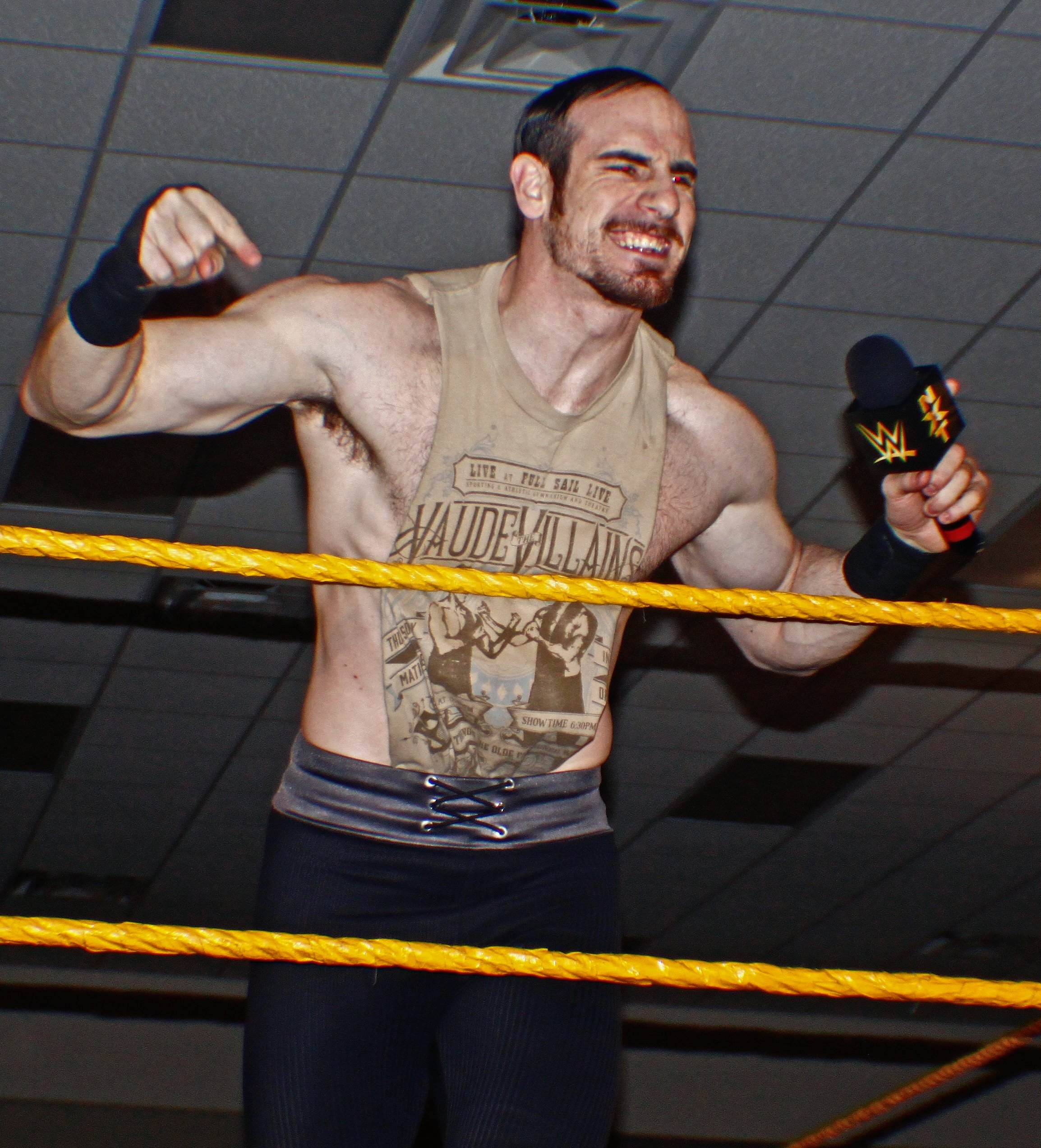 Aiden English at an NXT show. Cropped from original